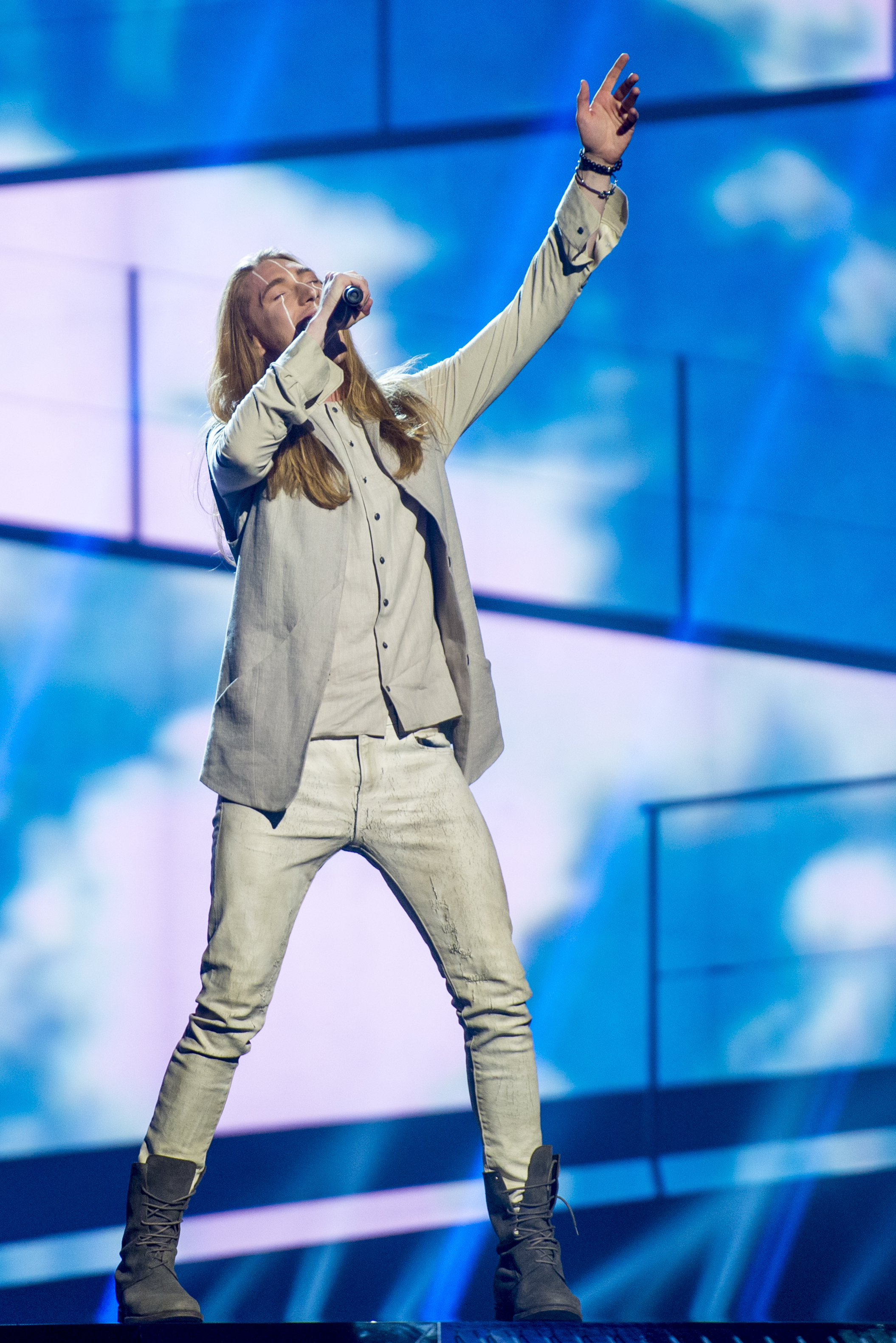 Ivan representing Belarus with the song "Help You Fly" during a rehearsal before the second semi final of the Eurovision Song Contest 2016 in Stockholm. (Help translate this text)